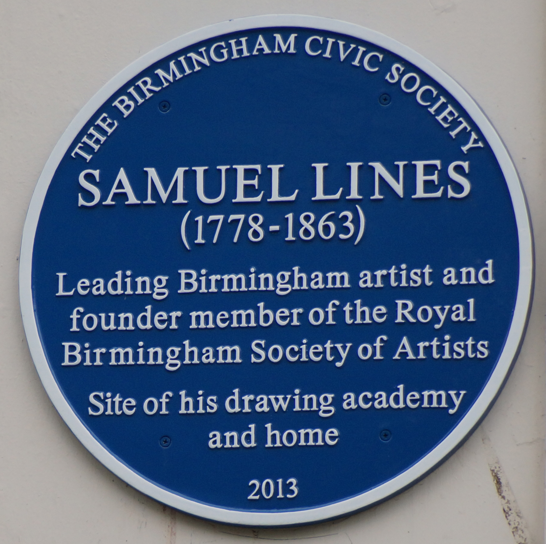 Blue plaque to local artist Samuel Lines, near the Old Joint Stock (pub and theatre, formerly a bank), Birmingham, England.